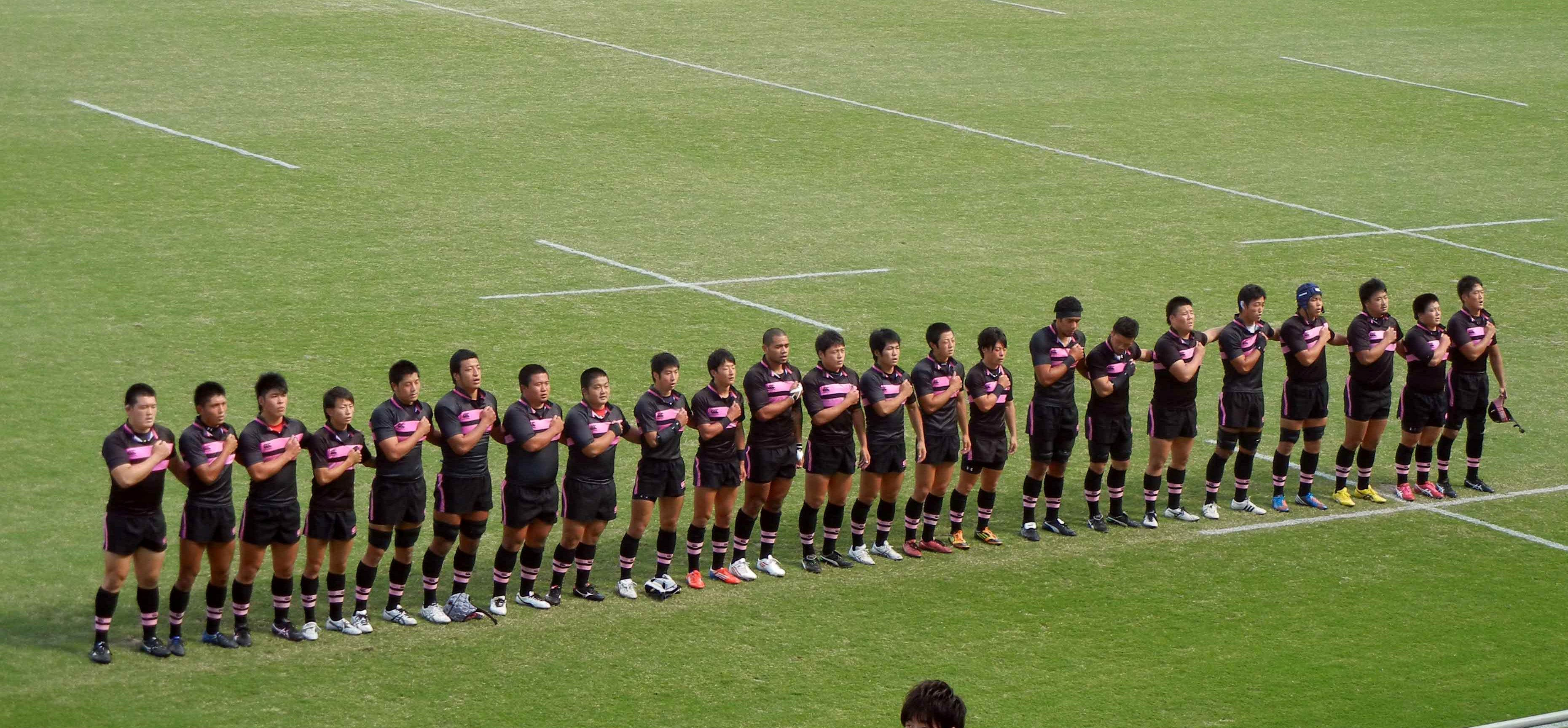 Nihon University Rugby Football Club Players